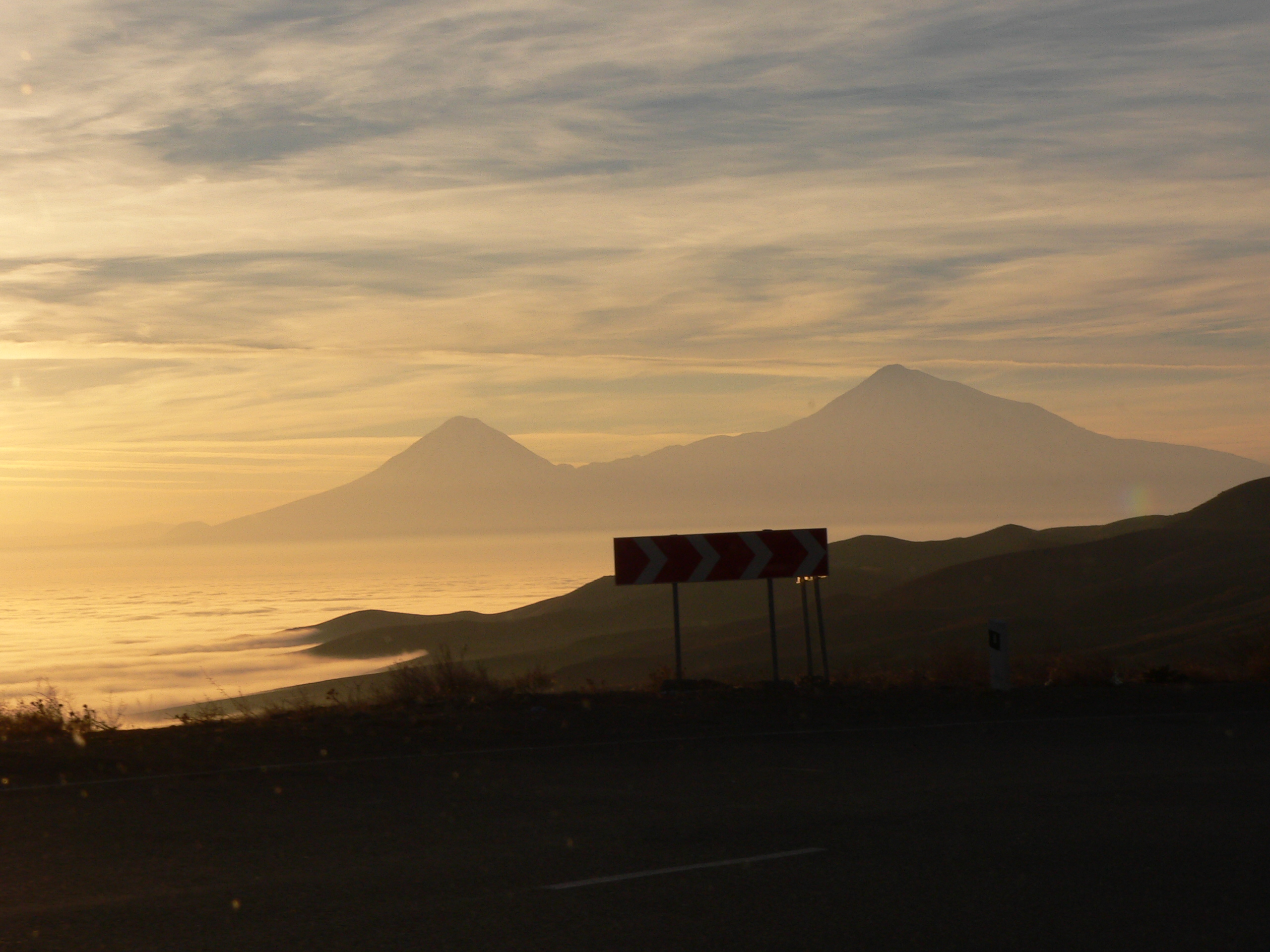 Fog over Ararat Valley.